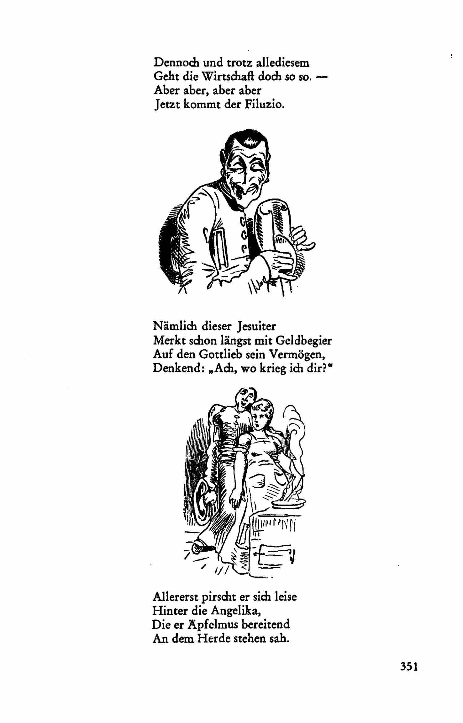 This is a scan of the historical document